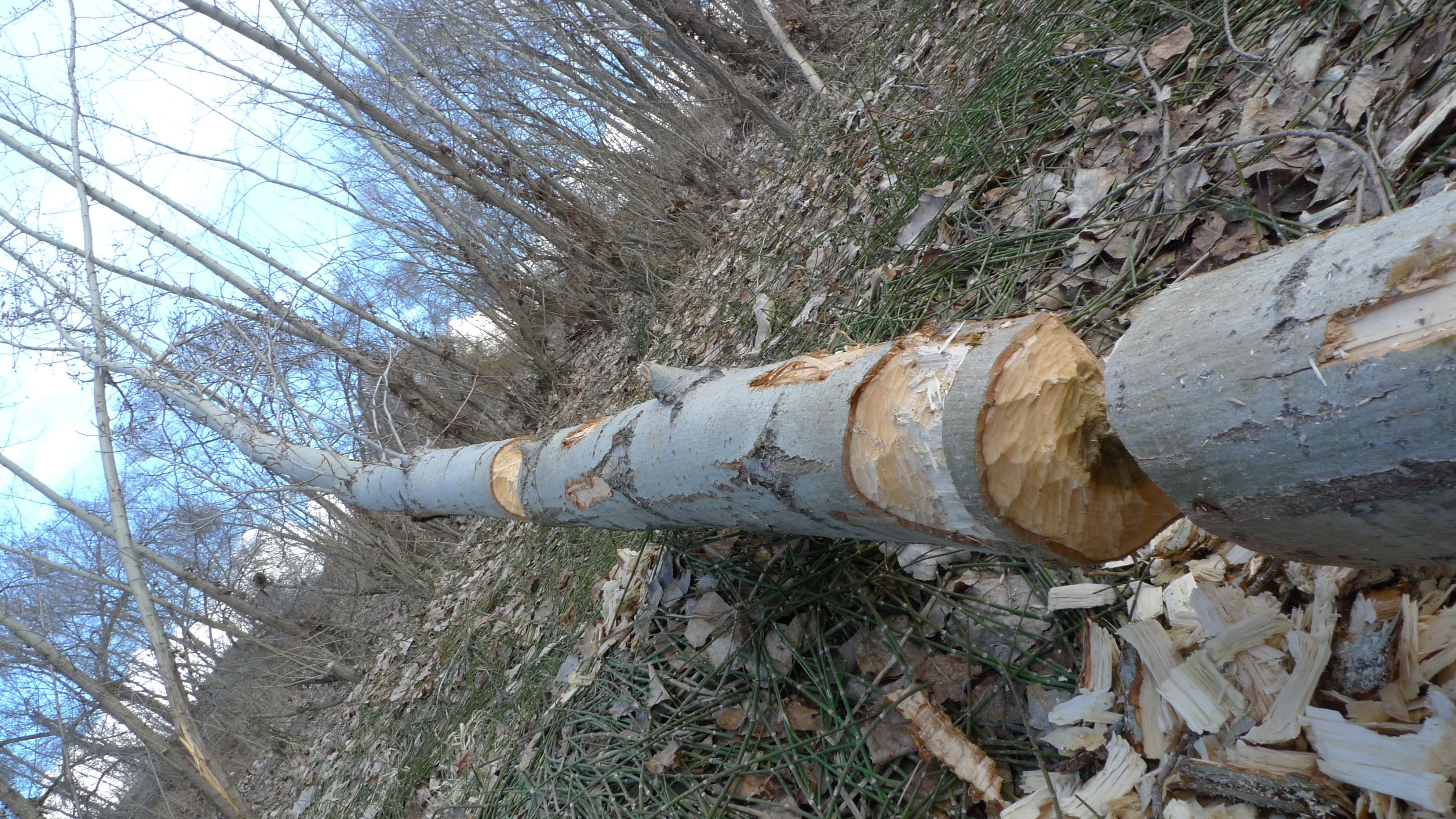 Populus trichocarpa young tree felled by beaver (Castor canadensis) near the Columbia River in East Wenatchee, Douglas County Washington